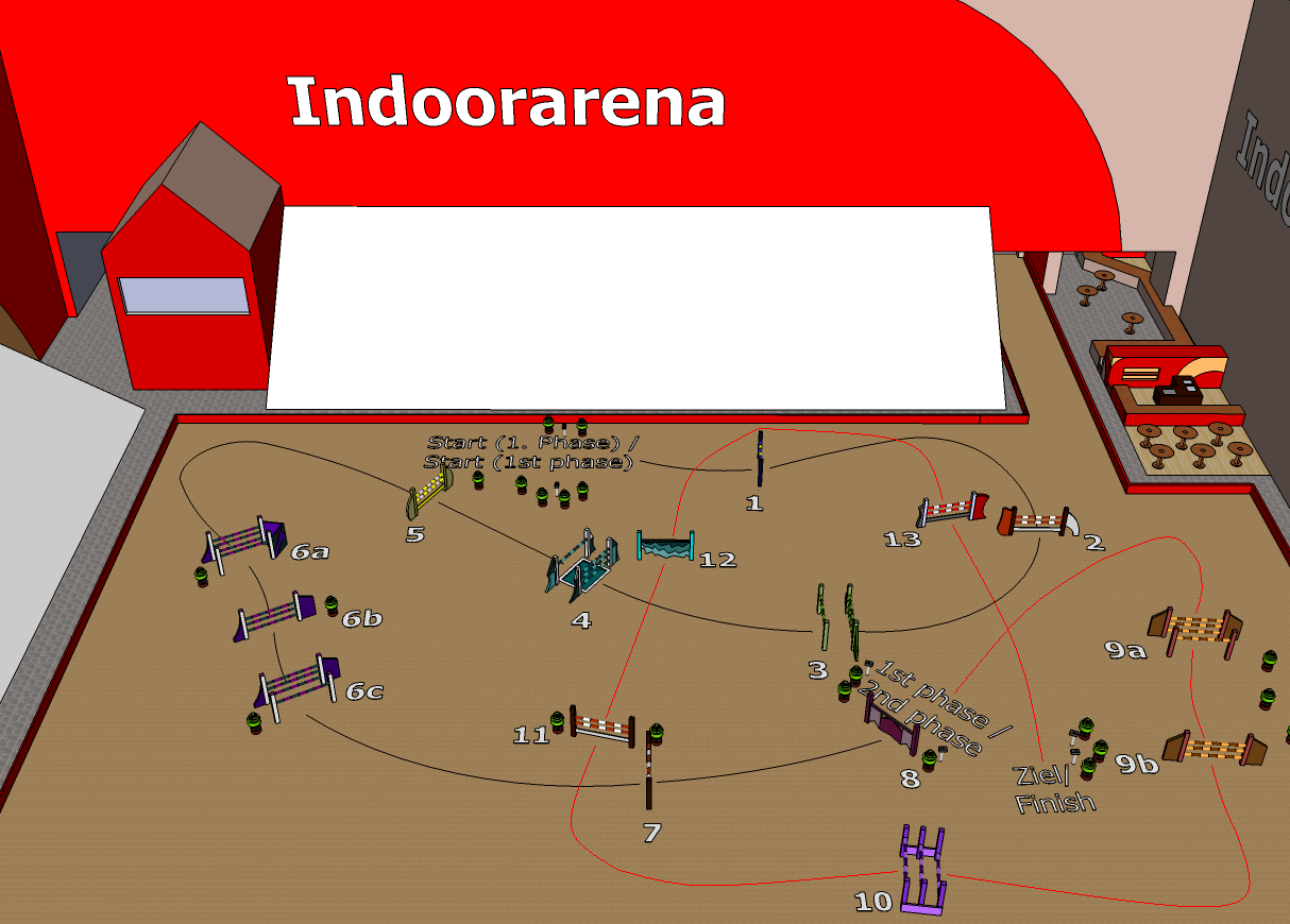 Show jumping: example of a competition in two phases (3D version). Created with Google SketchUp 8, exported as PNG, reworked with Paint.